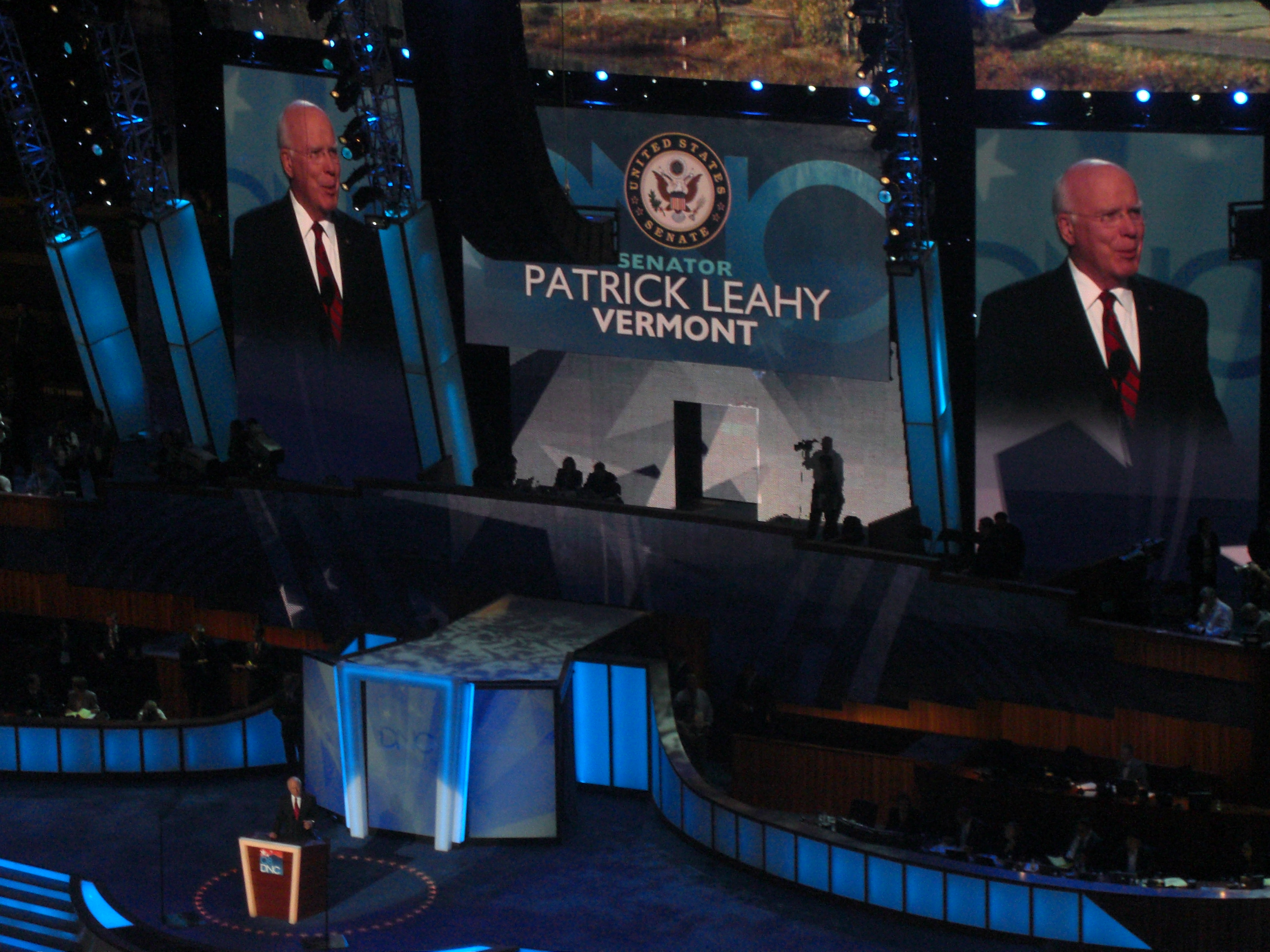 Patrick Leahy speaks during the second day of the 2008 Democratic National Convention in Denver, Colorado, United States.